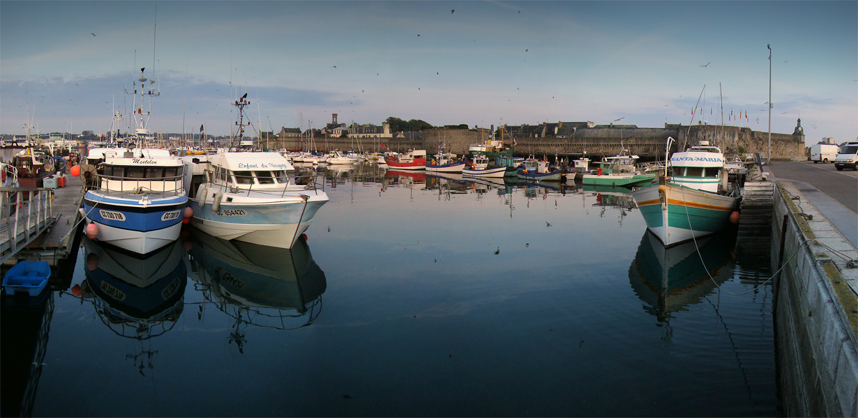 Concarneau, Finistère, Bretagne, France. The commercial harbour.